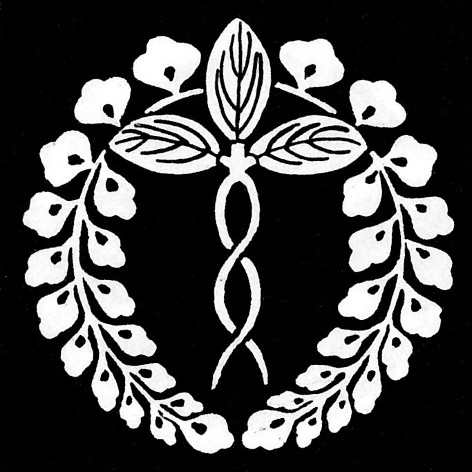 Crest of Nijô Family